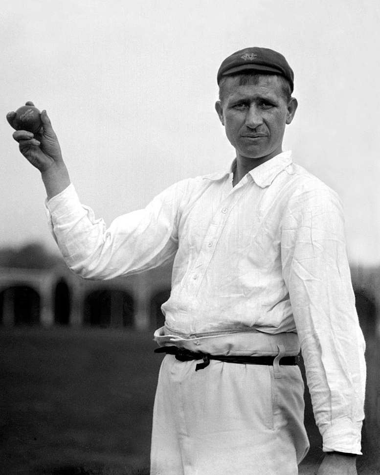 Thomas George Wass, Nottinghamshire, circa 1905.